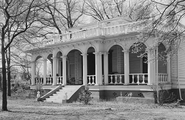 Nick Prevost House, 105 North Prevost Street, Anderson (Anderson County, South Carolina) - cropped A former NRHP. No longer exists This file comes from the Historic American Buildings Survey (HABS), Historic American Engineering Record (HAER) or Historic American Landscapes Survey (HALS). These are programs of the National Park Service established for the purpose of documenting historic places. Records consist of measured drawings, archival photographs, and written reports. When reusing please credit: Library of Congress, Prints & Photographs Division, SC,4-AND,6-1 This tag does not indicate the copyright status of the attached work. A normal copyright tag is still required. See Commons:Licensing. This work is in the public domain in the United States because it is a work prepared by an officer or employee of the United States Government as part of that person’s official duties under the terms of Title 17, Chapter 1, Section 105 of the US Code. Note: This only applies to original works of the Federal Government and not to the work of any individual U.S. state, territory, commonwealth, county, municipality, or any other subdivision. This template also does not apply to postage stamp designs published by the United States Postal Service since 1978. (See § 313.6(C)(1) of Compendium of U.S. Copyright Office Practices). It also does not apply to certain US coins; see The US Mint Terms of Use. This file has been identified as being free of known restrictions under copyright law, including all related and neighboring rights. This image or media file contains material based on a work of a United States Department of the Interior employee, created as part of that person's official duties. As a work of the U.S. federal government, such work is in the public domain in the United States. See the Department of the Interior copyright policy for more information. Object location34° 30′ 05.04″ N, 82° 40′ 32.16″ W